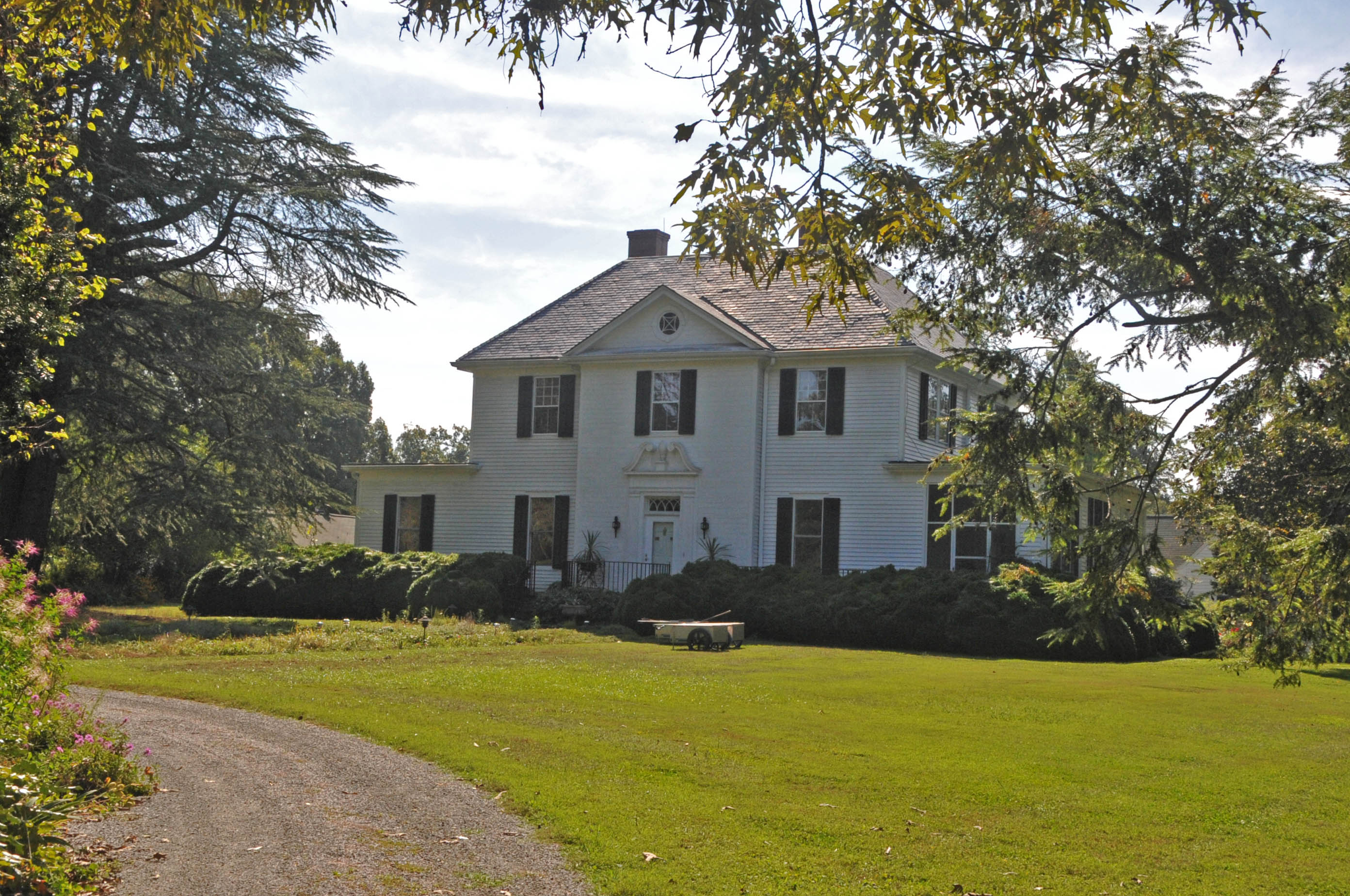 1842 FEDERAL, COLONIAL REVIVAL; NATIONALLY KNOWN GARDENS BEGUN IN THE 19TH CENTURY BY GOVERNOR AND MRS. WILLIAM ALEXANDER GRAHAM